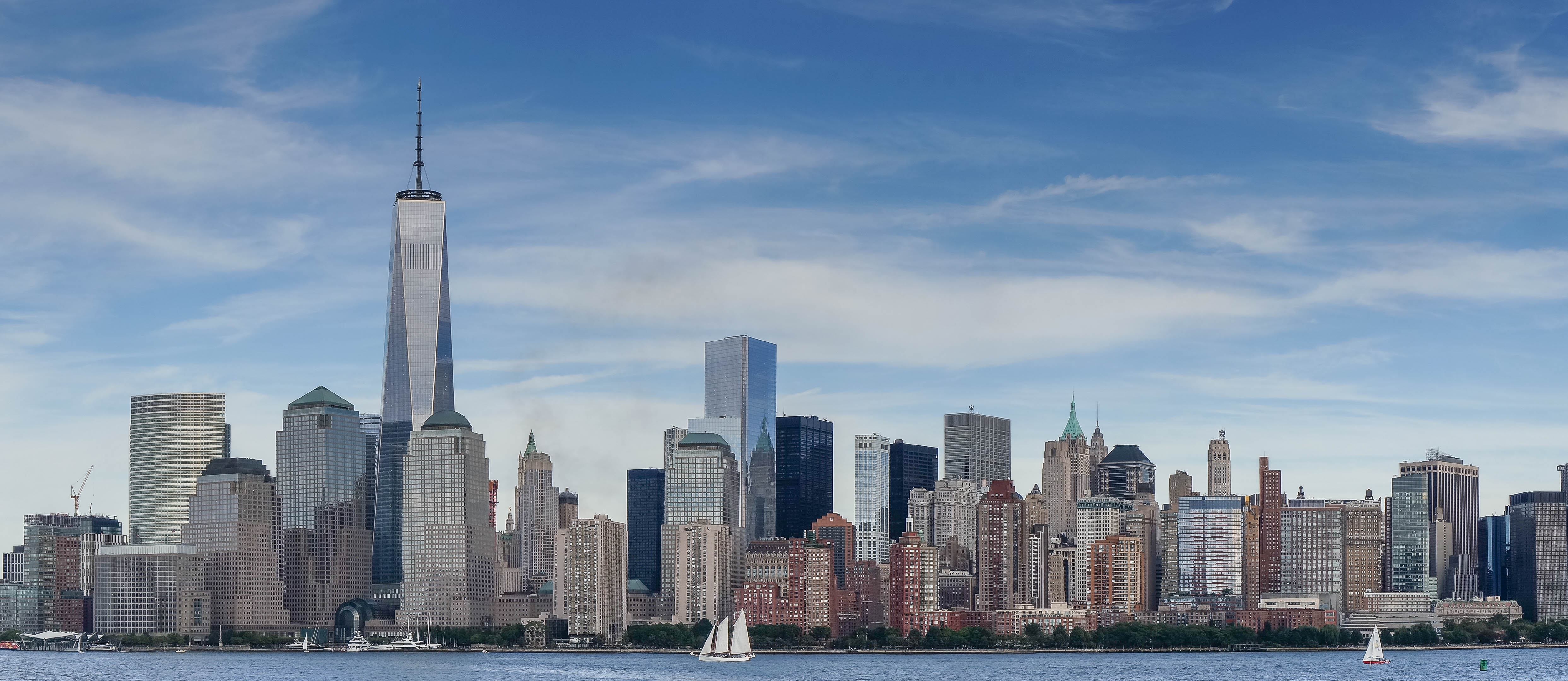 Lower Manhattan skyline, September 2014.